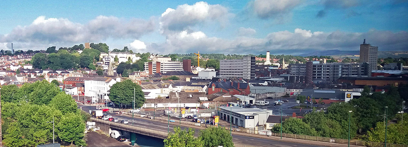 Newport, Wales. View from Newport Student Village.